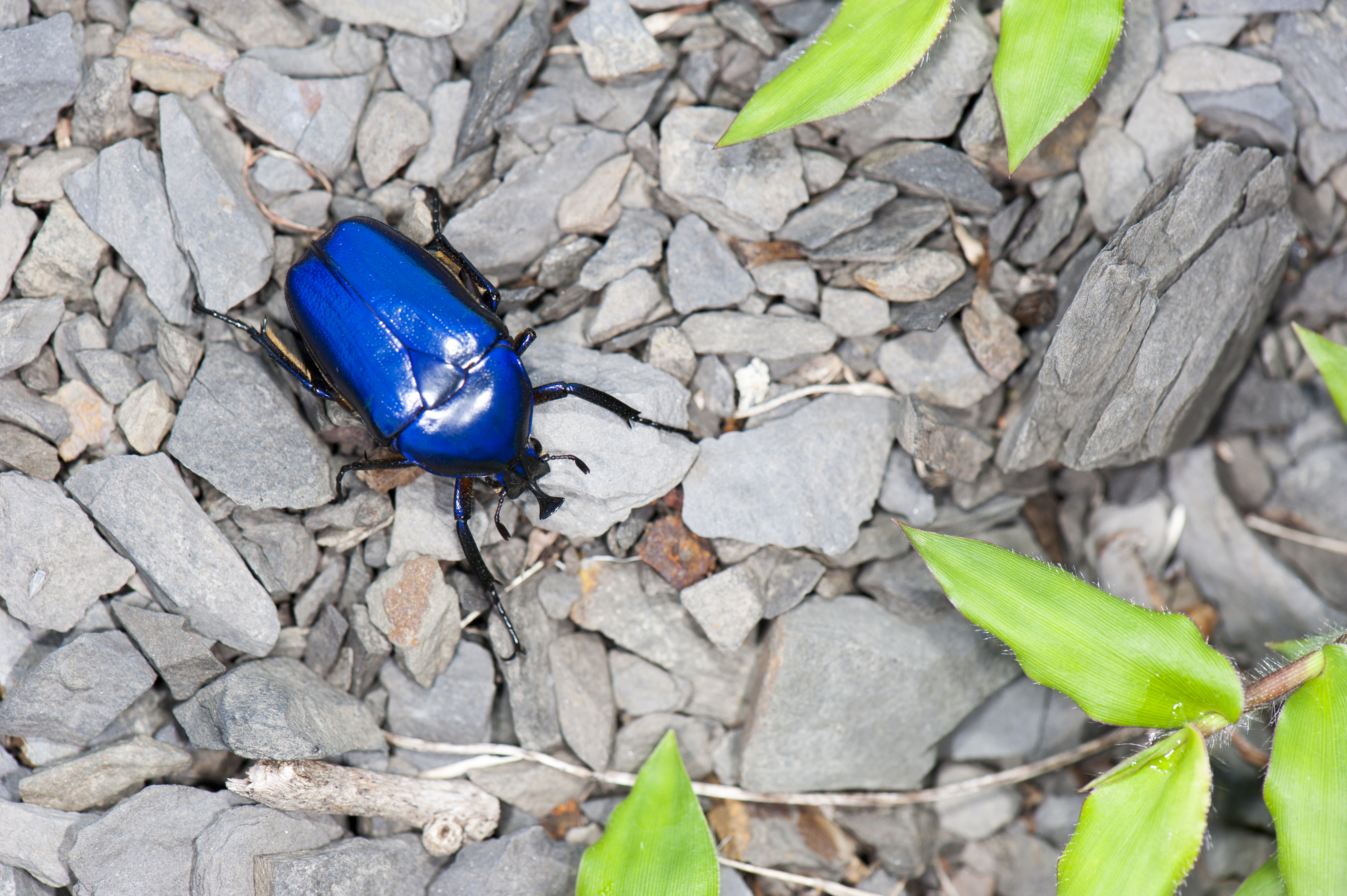 Trigonophorus rothschildi varians Bourgoin, 1914 臺灣扇角金龜